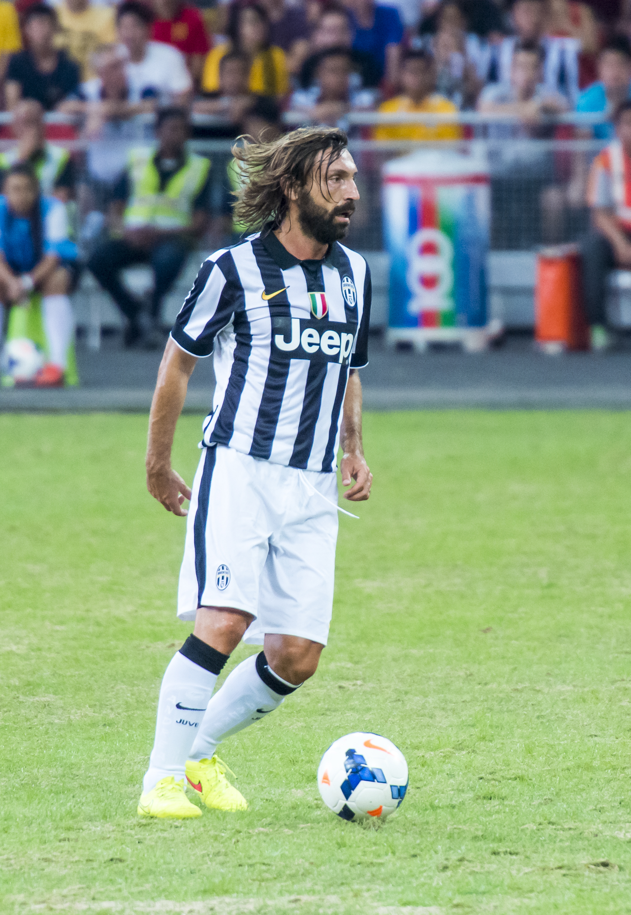 andrea pirlo juventus singapore sports hub debut game 2014